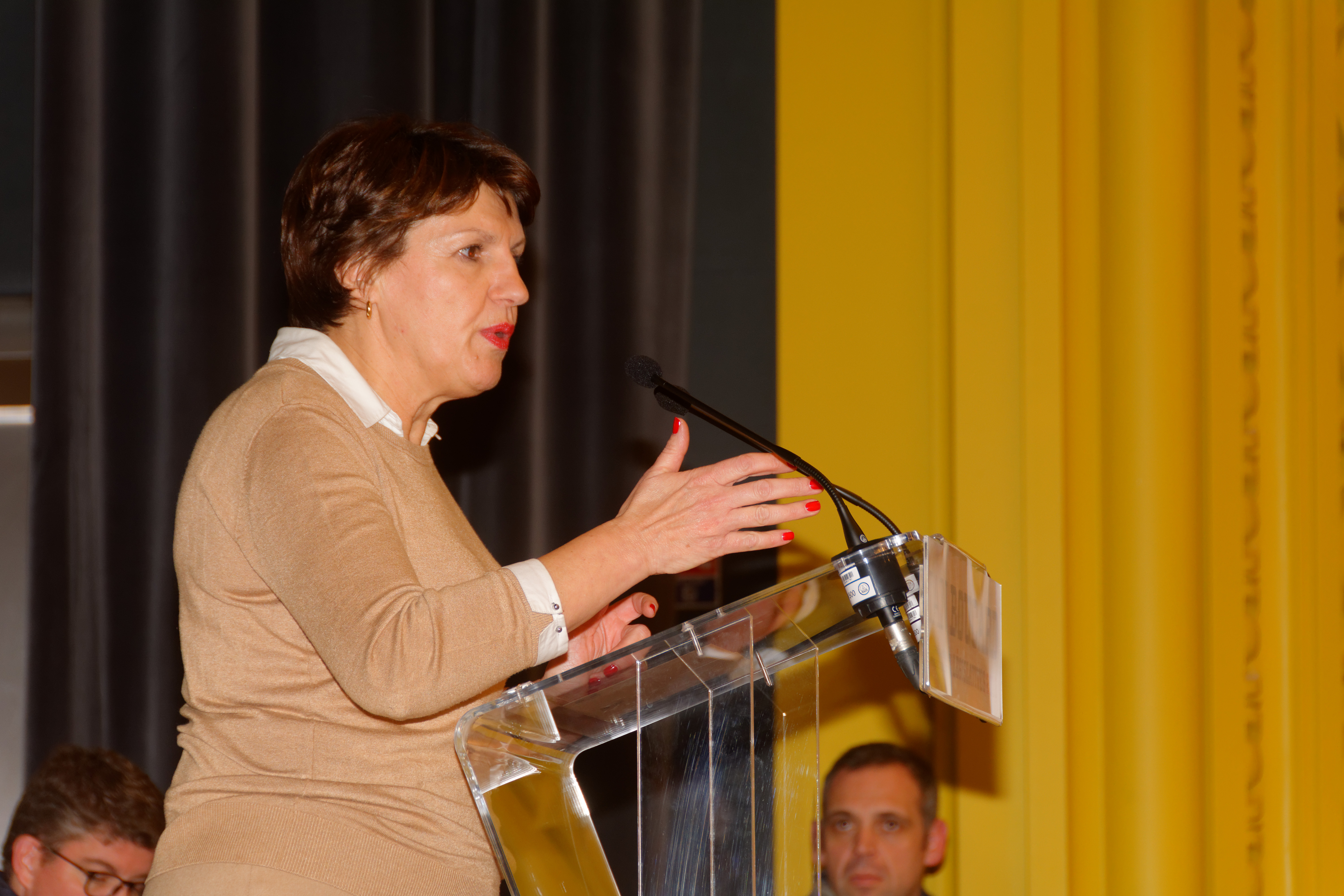 Personality rights warningAlthough this work is freely licensed or in the public domain, the person(s) shown may have rights that legally restrict certain re-uses unless those depicted consent to such uses. In these cases, a model release or other evidence of consent could protect you from infringement claims.